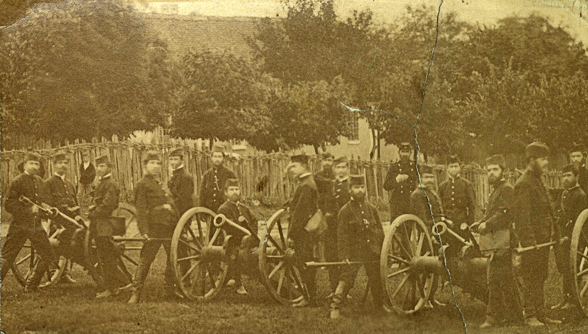 Serbian artillery during Serbian–Ottoman wars